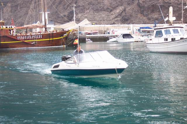 Motorboat in Tenerife (2004)